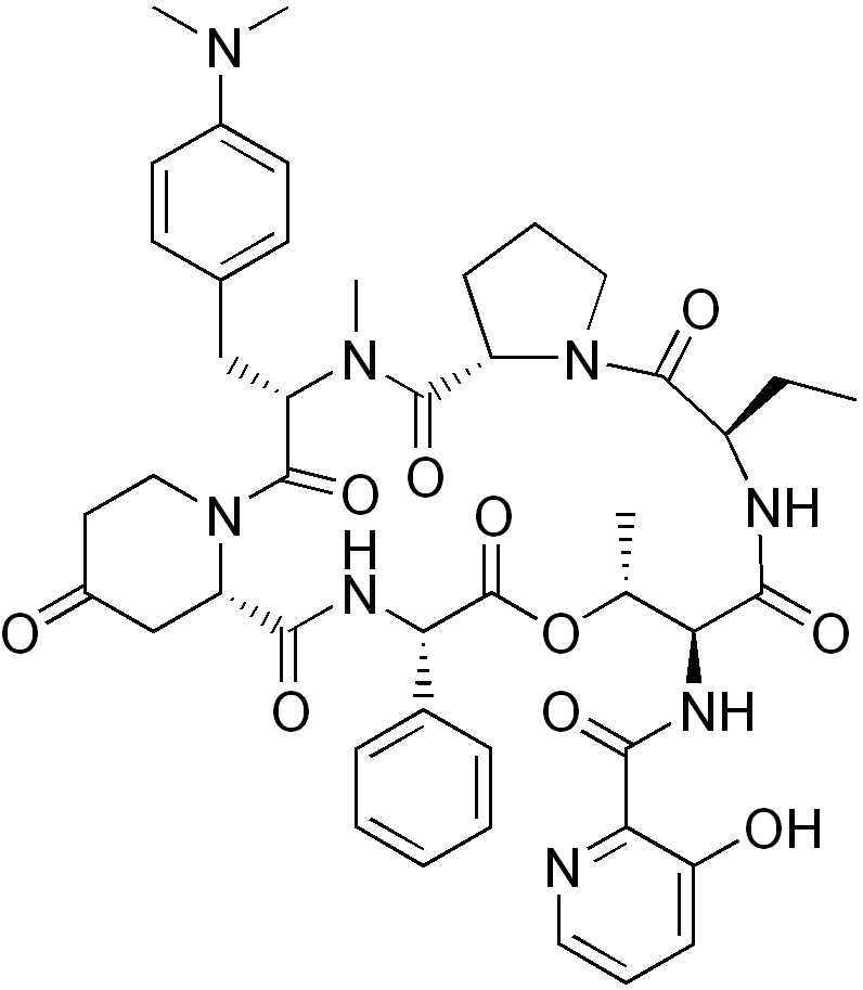 chemical structure of pristinamcyin IA, Mikamycin B; Mikamycin IA; Pristinamycin P 1; Streptogramin B; Vernamycin Bα